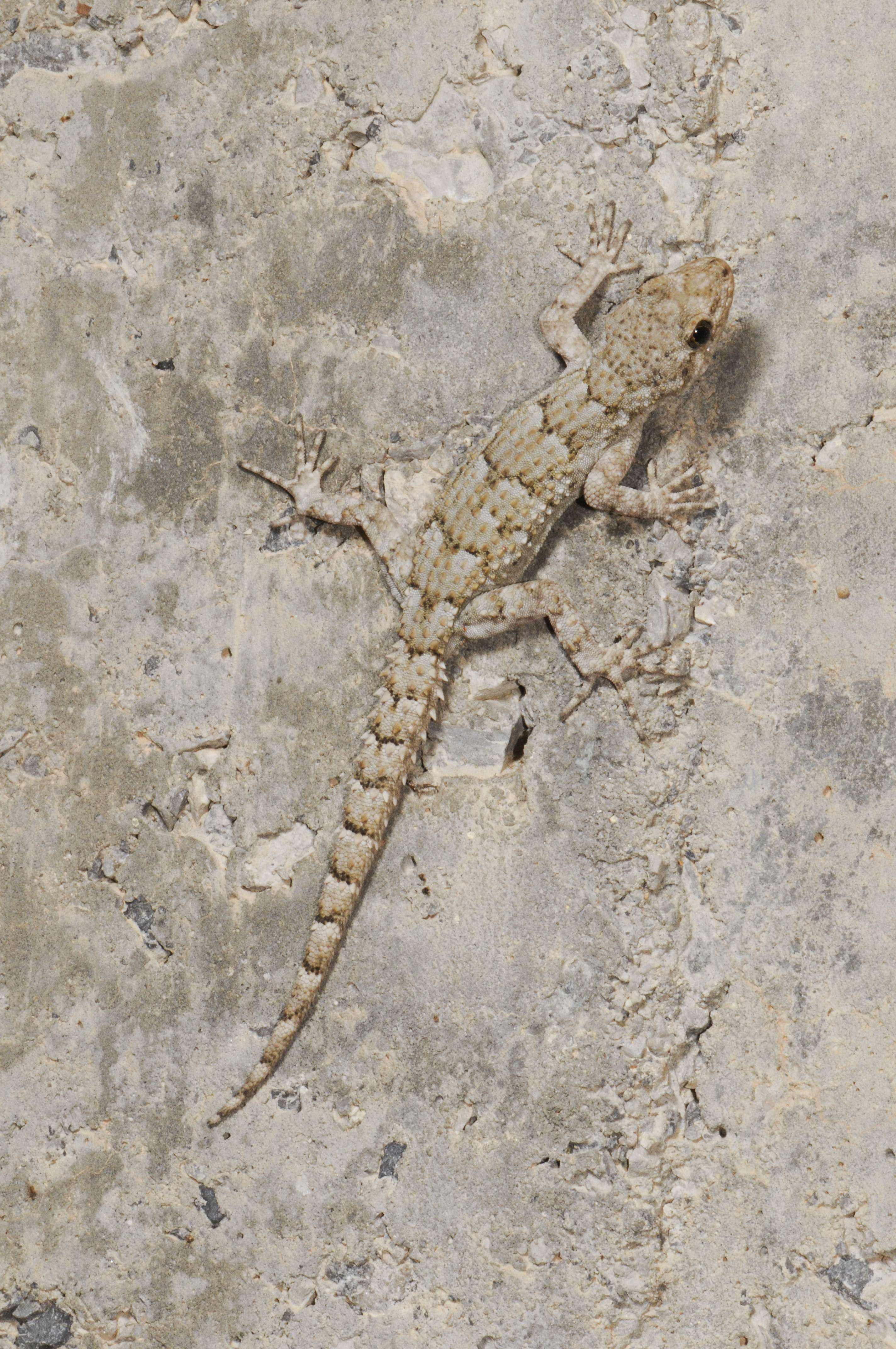 Mediodactylus kotschyi